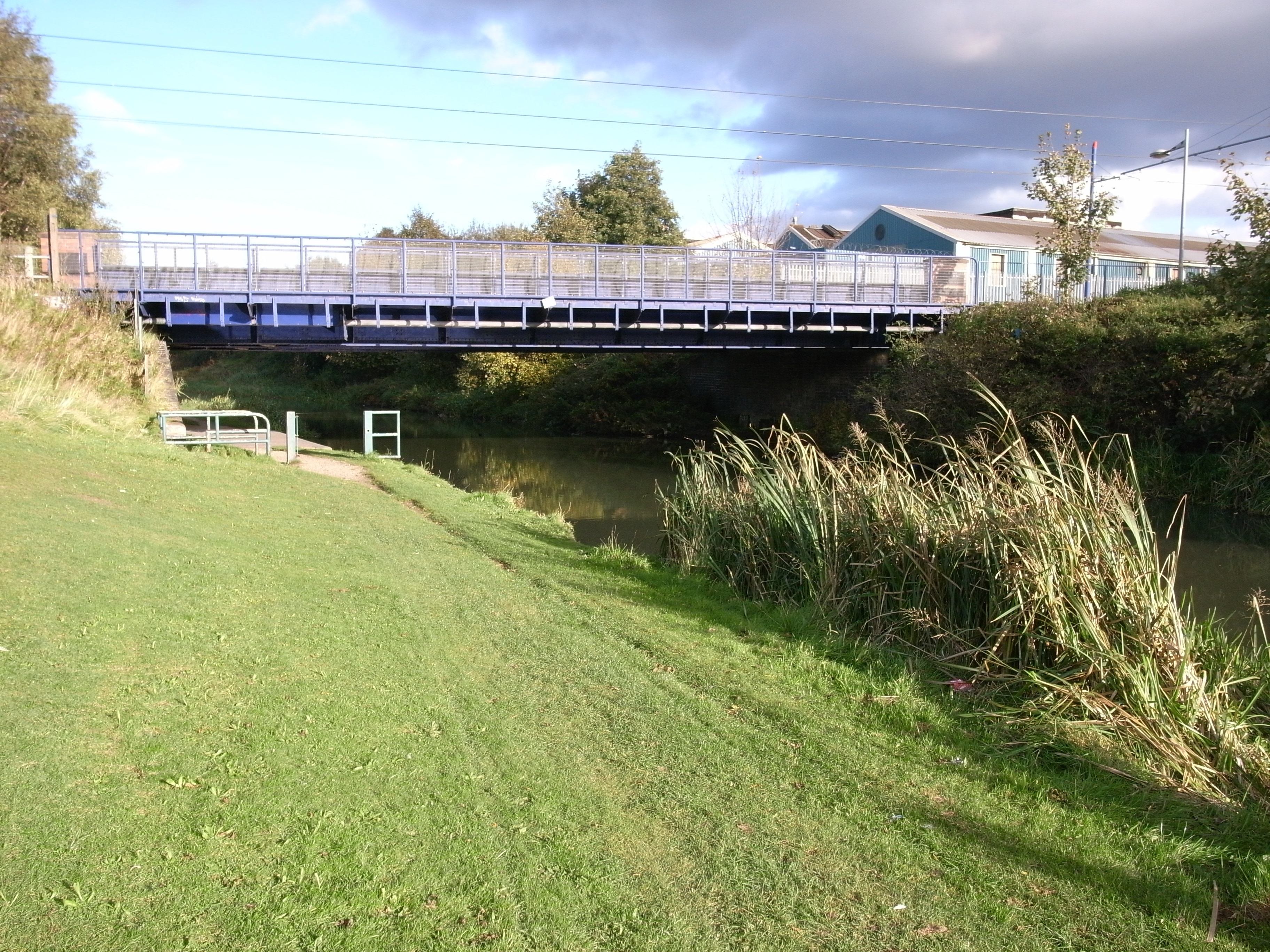 The disconnected Ridgacre Branch Canal in West Bromwich, England. This is Midland Metro bridge at Black Lake station.